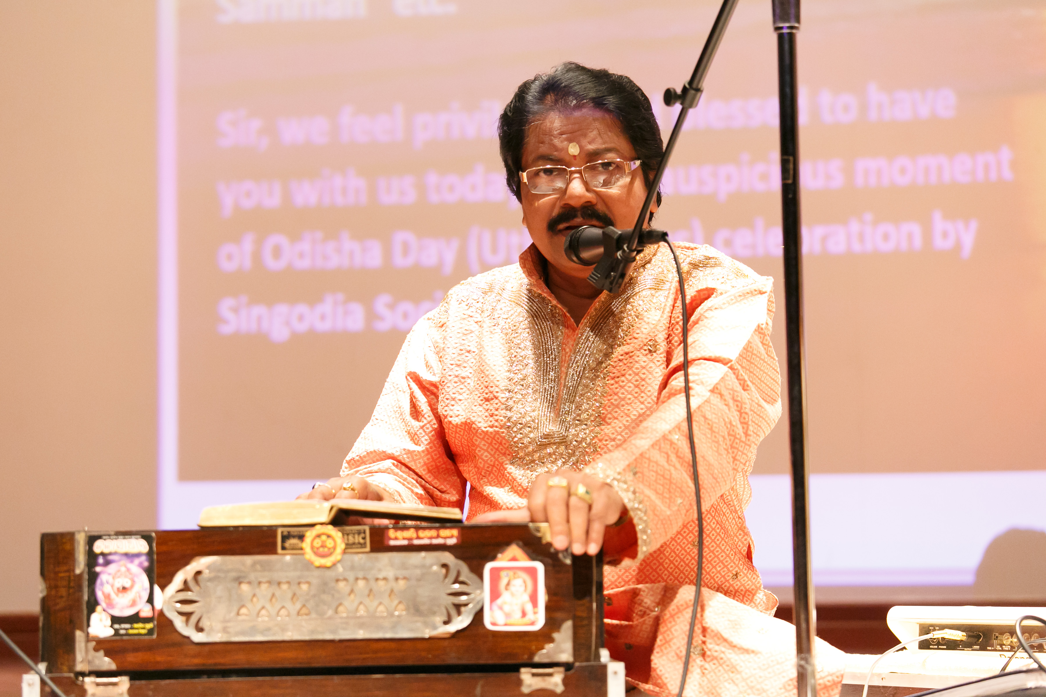 Arabinda Muduli LIVE in Concert at Singpost Auditorium, Singapore on April 23, 2016, Organised By Odia Society Of Singapore